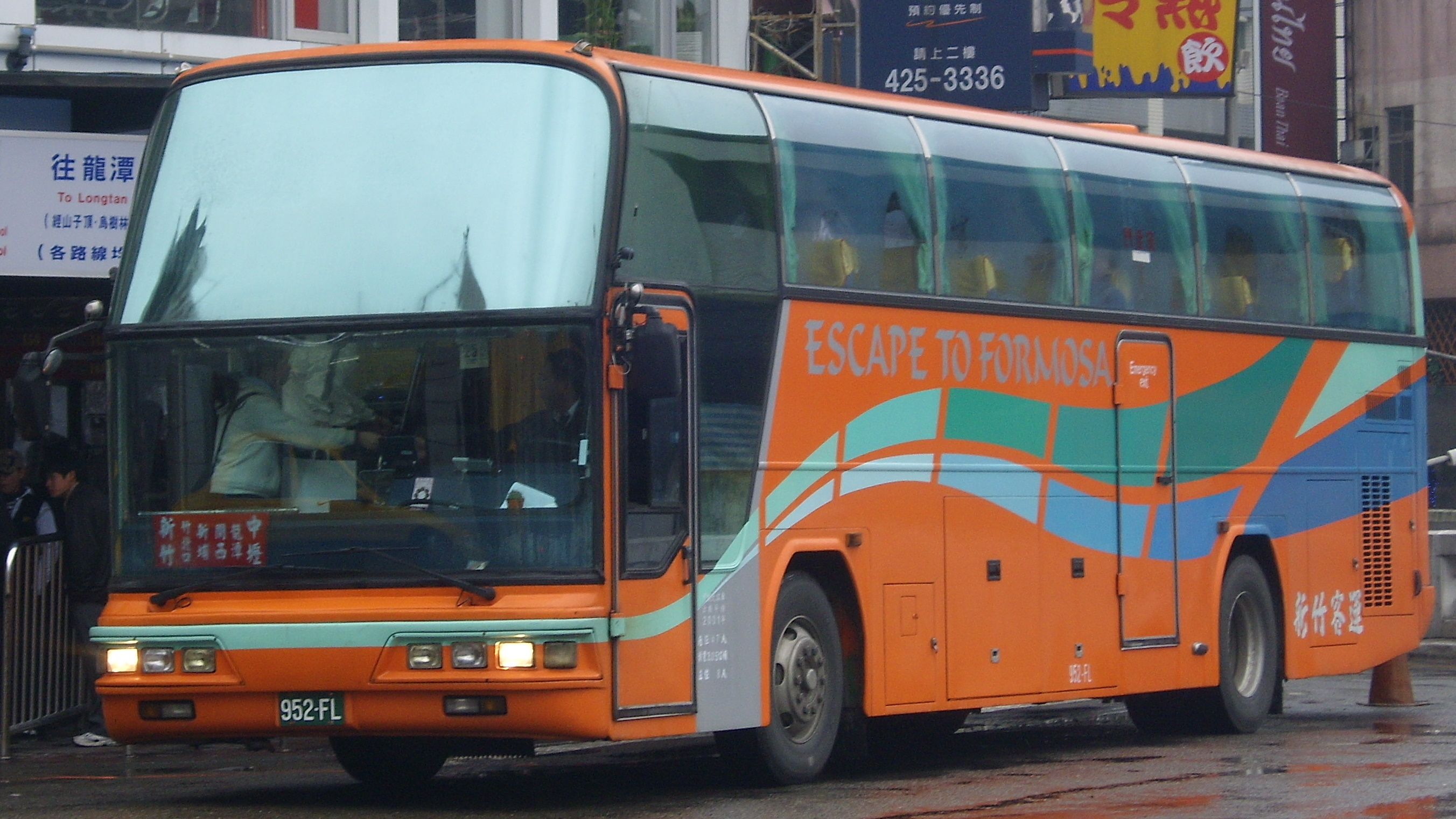 Hsinchu Bus - Hino LRM2PSA.